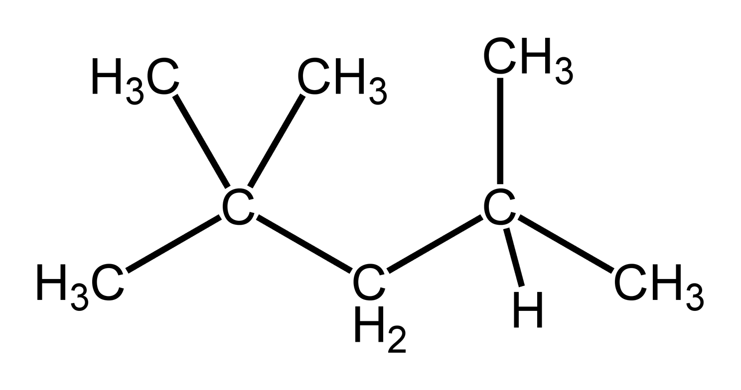 Structural formula of isooctane (2,2,4-trimethylpentane), with every atom displayed (although most C-H bonds are not shown, to keep the structure intelligible). Self made in ChemDraw and Photoshop by Ben Mills 10:40, 8 March 2006 (UTC).